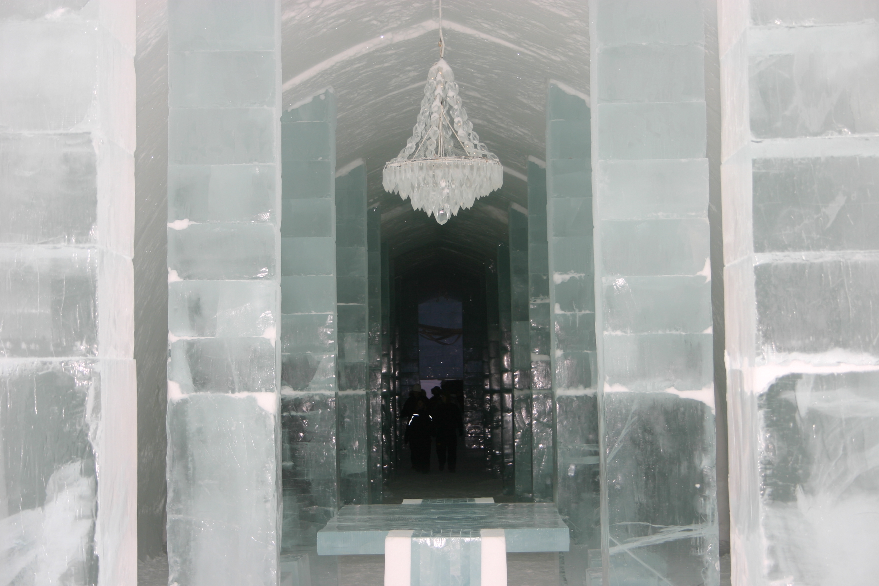 The Ice Hotel in Sweden. The Ice Hotel near the village of Jukkasjärvi, Kiruna, Sweden